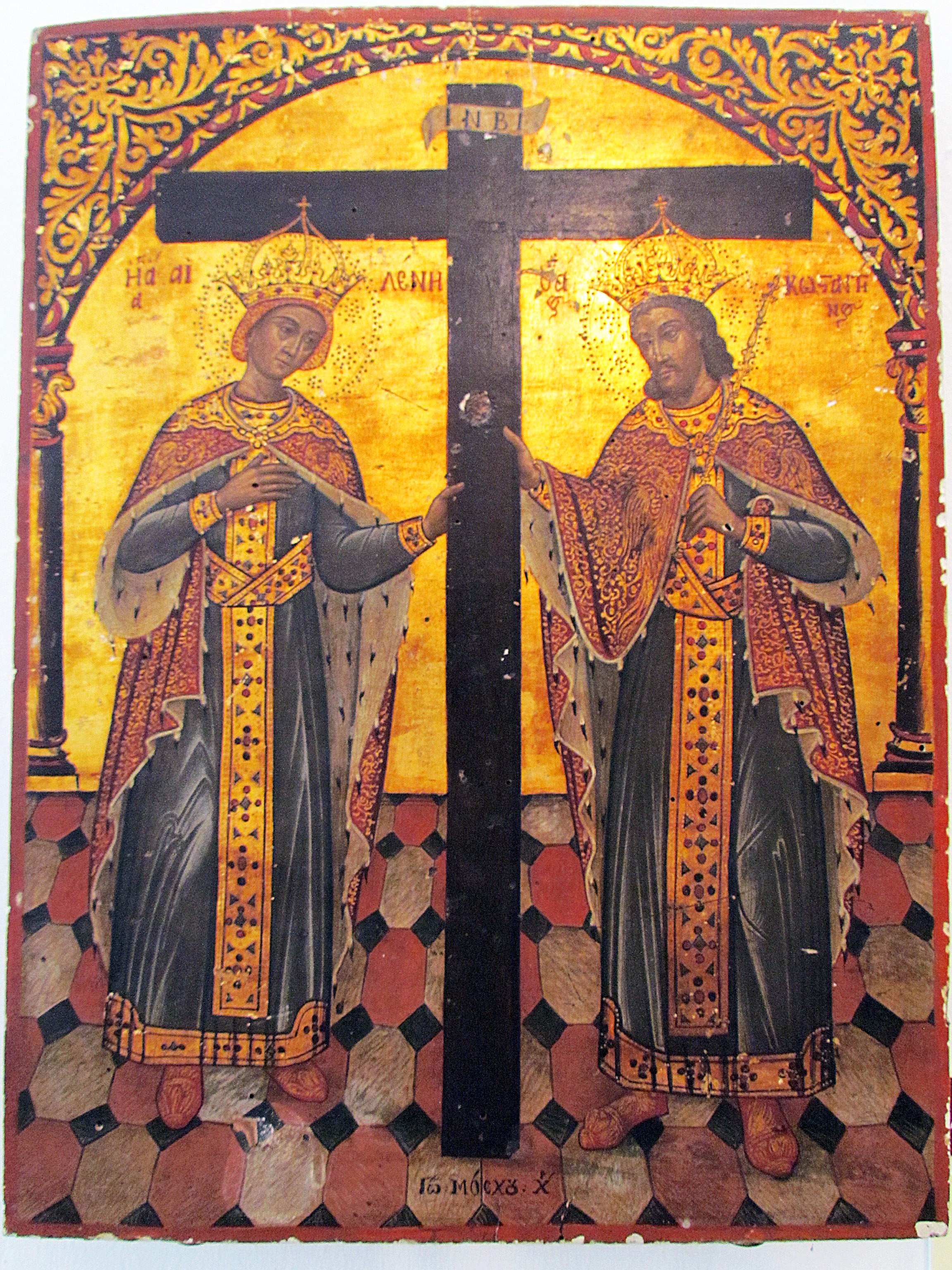 Giovanni Mosco: Saint Constantine and Helena